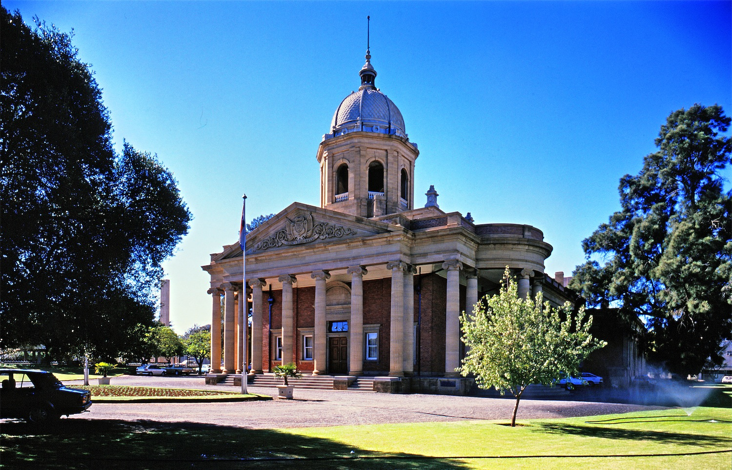 This media shows a South African Protected Site with SAHRA file reference 9/2/302/0027.